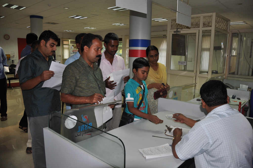 Q for submitting telegram messages in last day1.